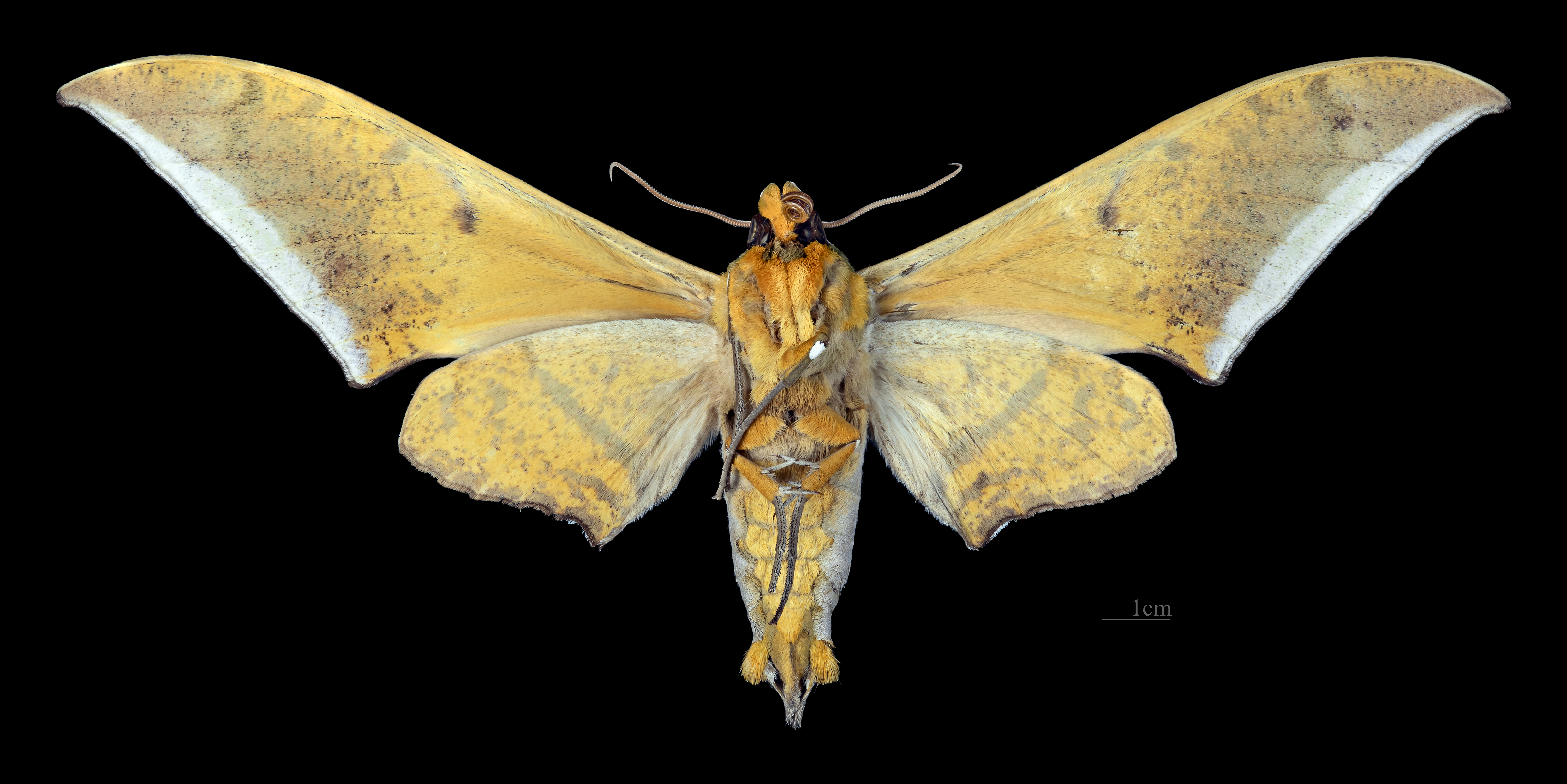 Ambulyx montana - △ Ventral side Collection of the Mathematician Laurent Schwartz